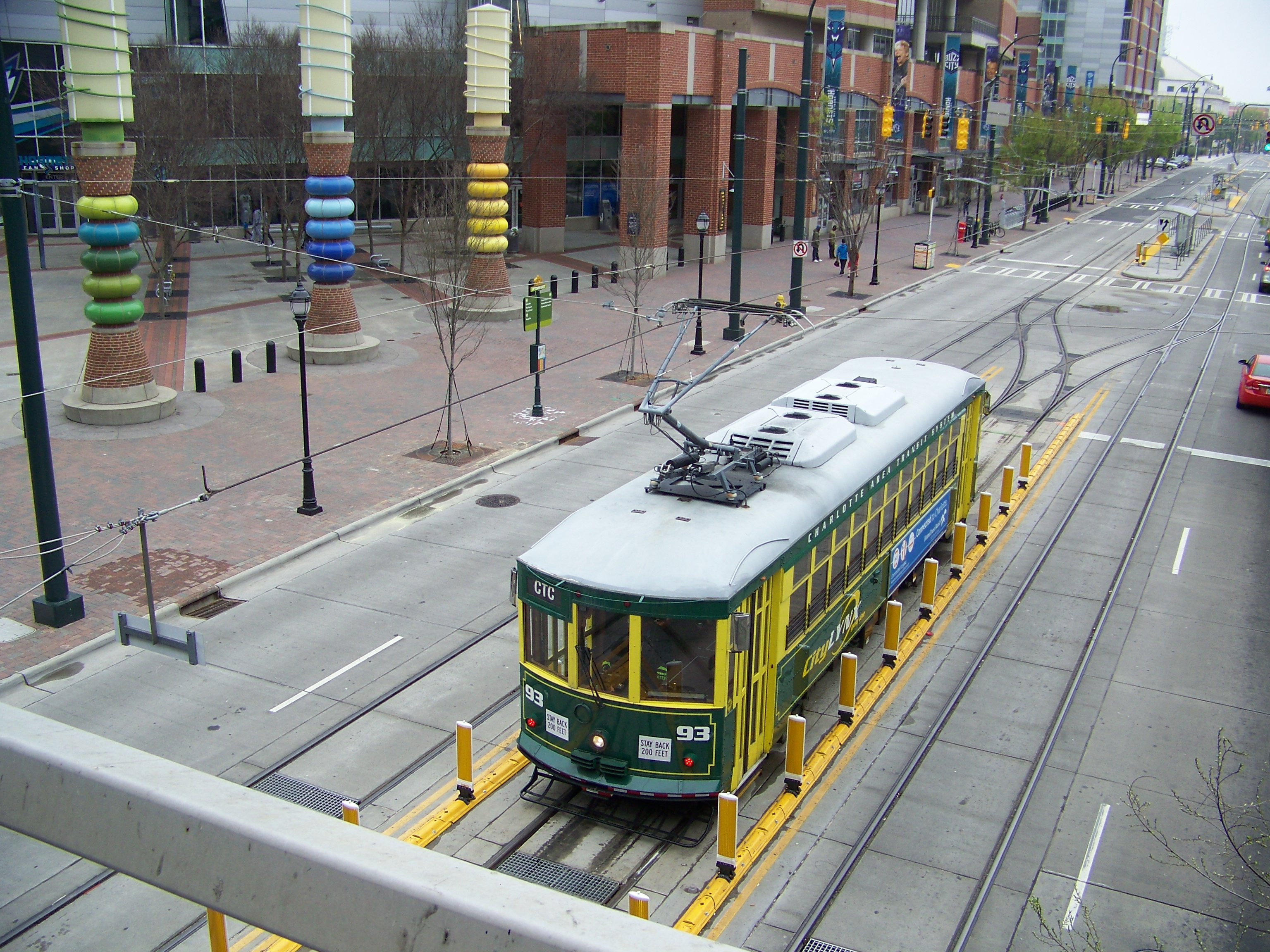 CityLynx Gold Line Birney car 93 laying over on E. Trade Street, at the line's Charlotte Transportation Center terminus, viewed from the Lynx light rail's Charlotte Transportation Center/Arena station, which crosses Trade Street on a viaduct. Passenger boarding takes place at the island stop visible in the background.